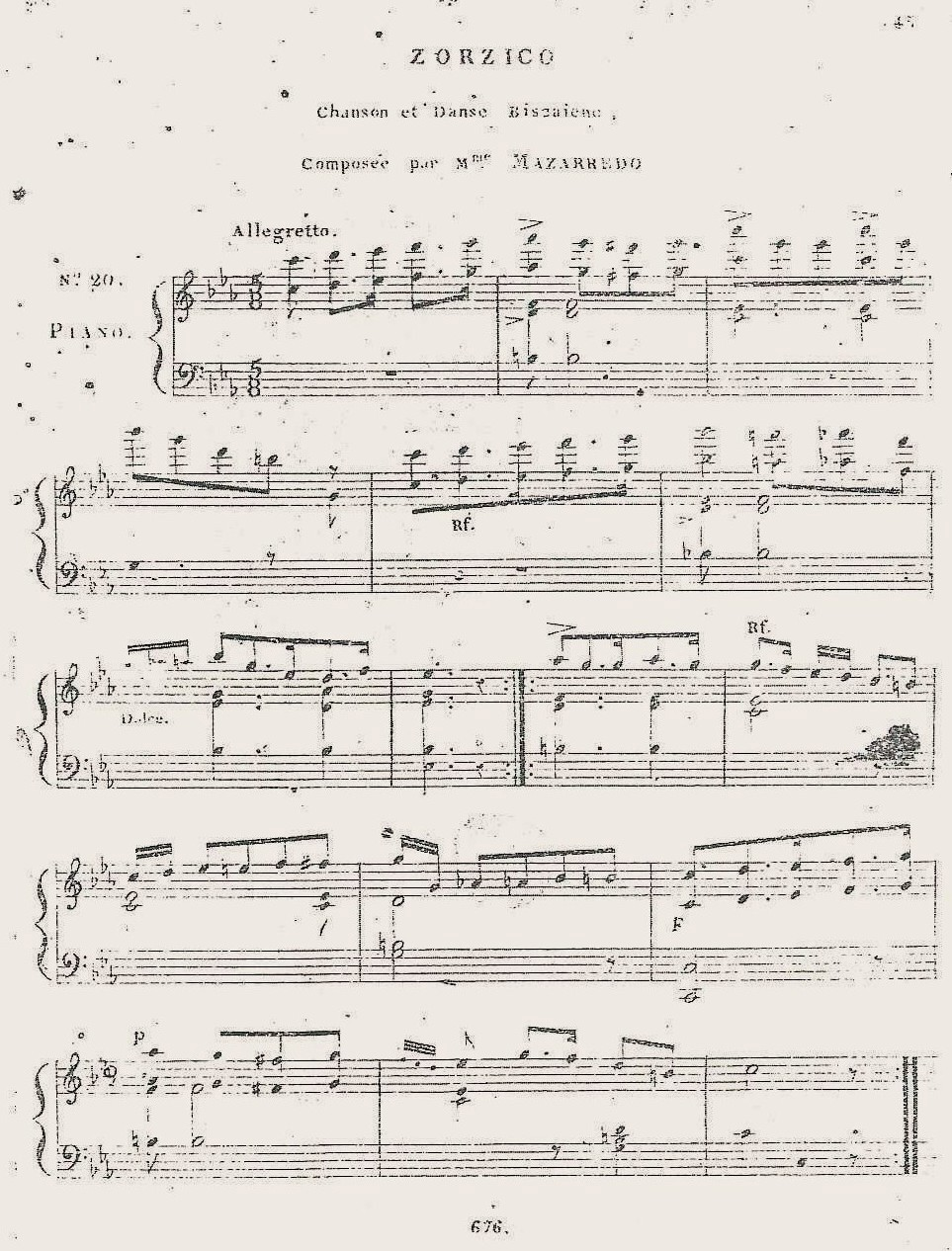 Zorzico by M.Mazarredo